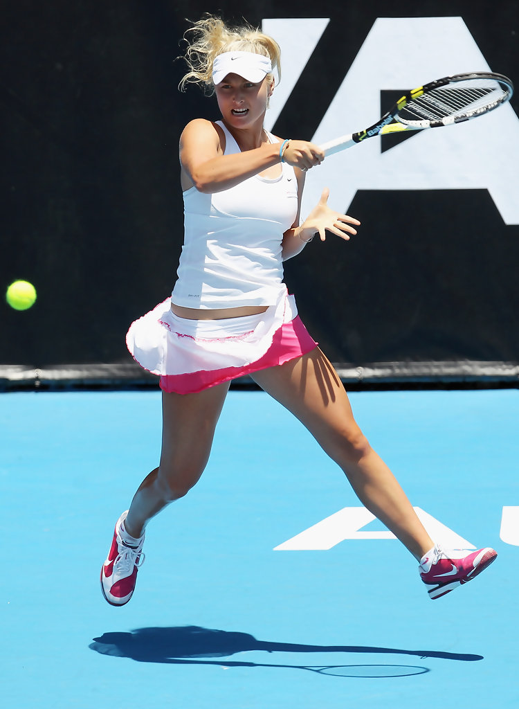 Sacha Jones hits a forehand during the ASB Classic